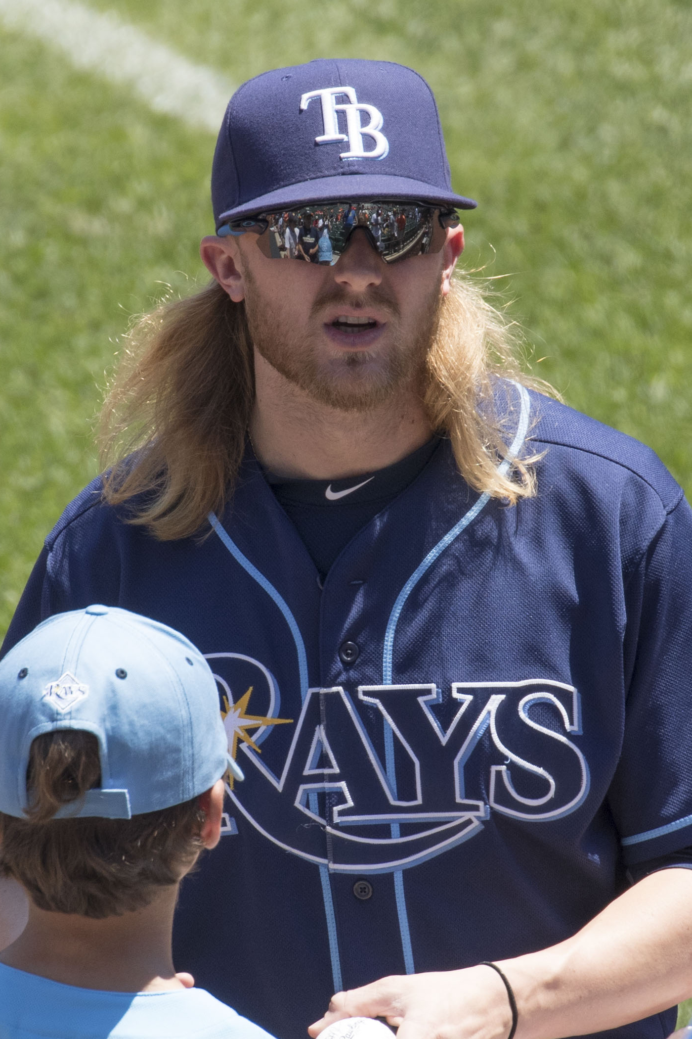 Taylor Motter